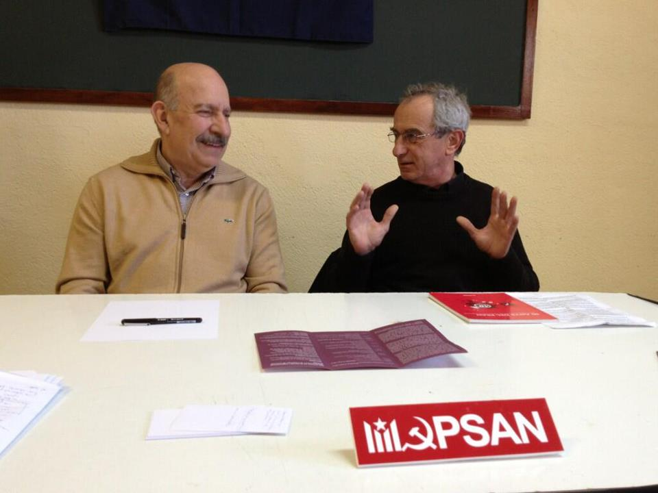 Jordi Fornas been invited to lecture at the conference PSAN policies, shares the table with Josep Guia, historical leader of the separatist party